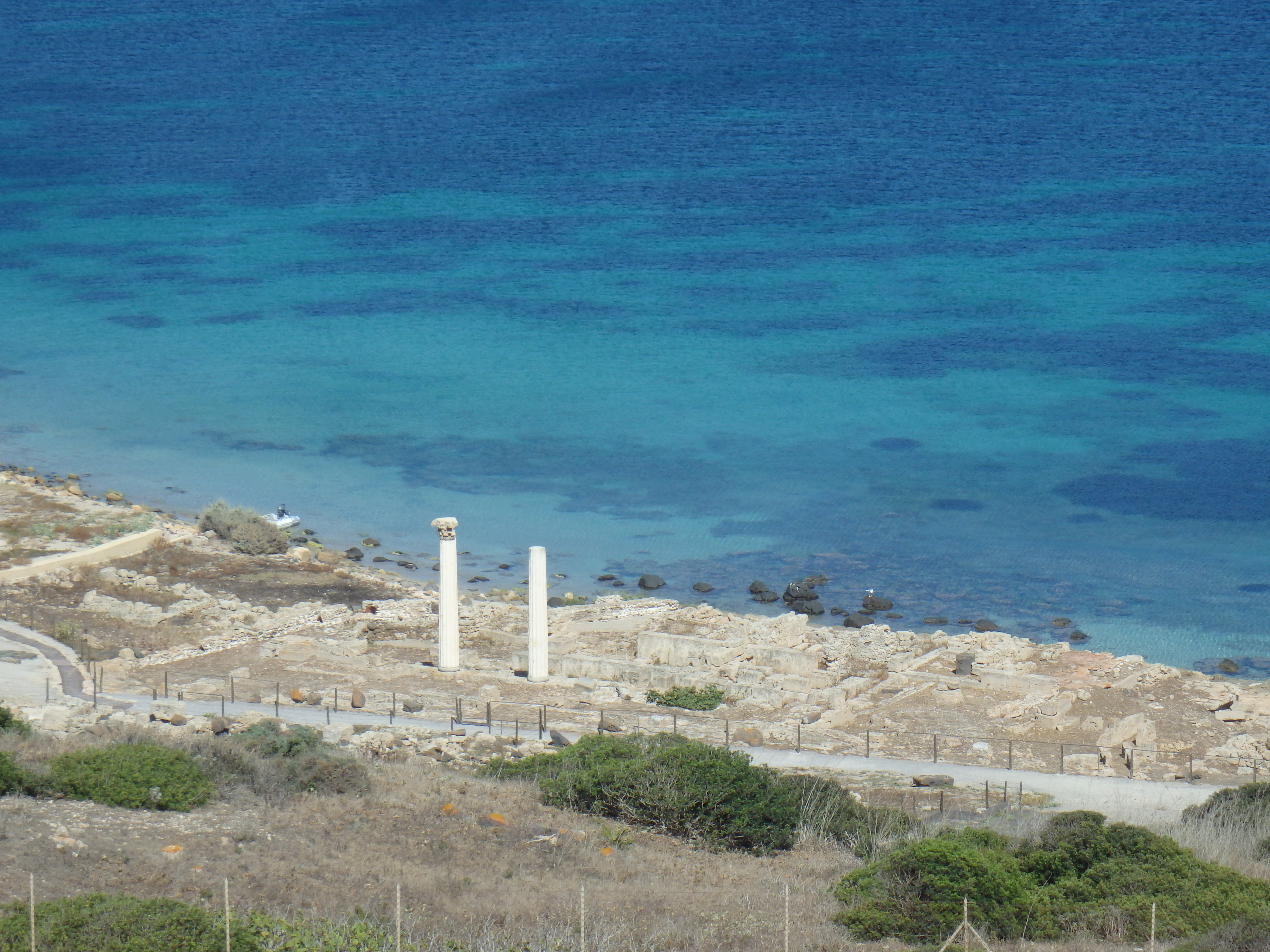 This is a photo of a monument which is part of cultural heritage of Italy.